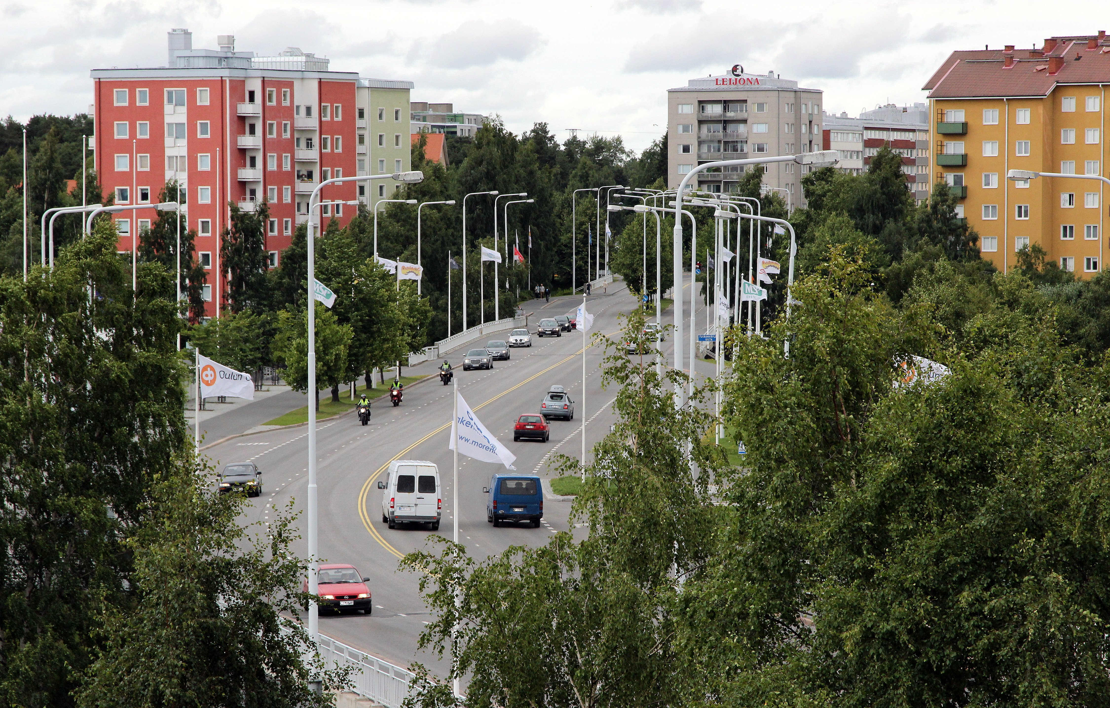 The Tuira Bridges seen from the old observatory in Linnansaari island